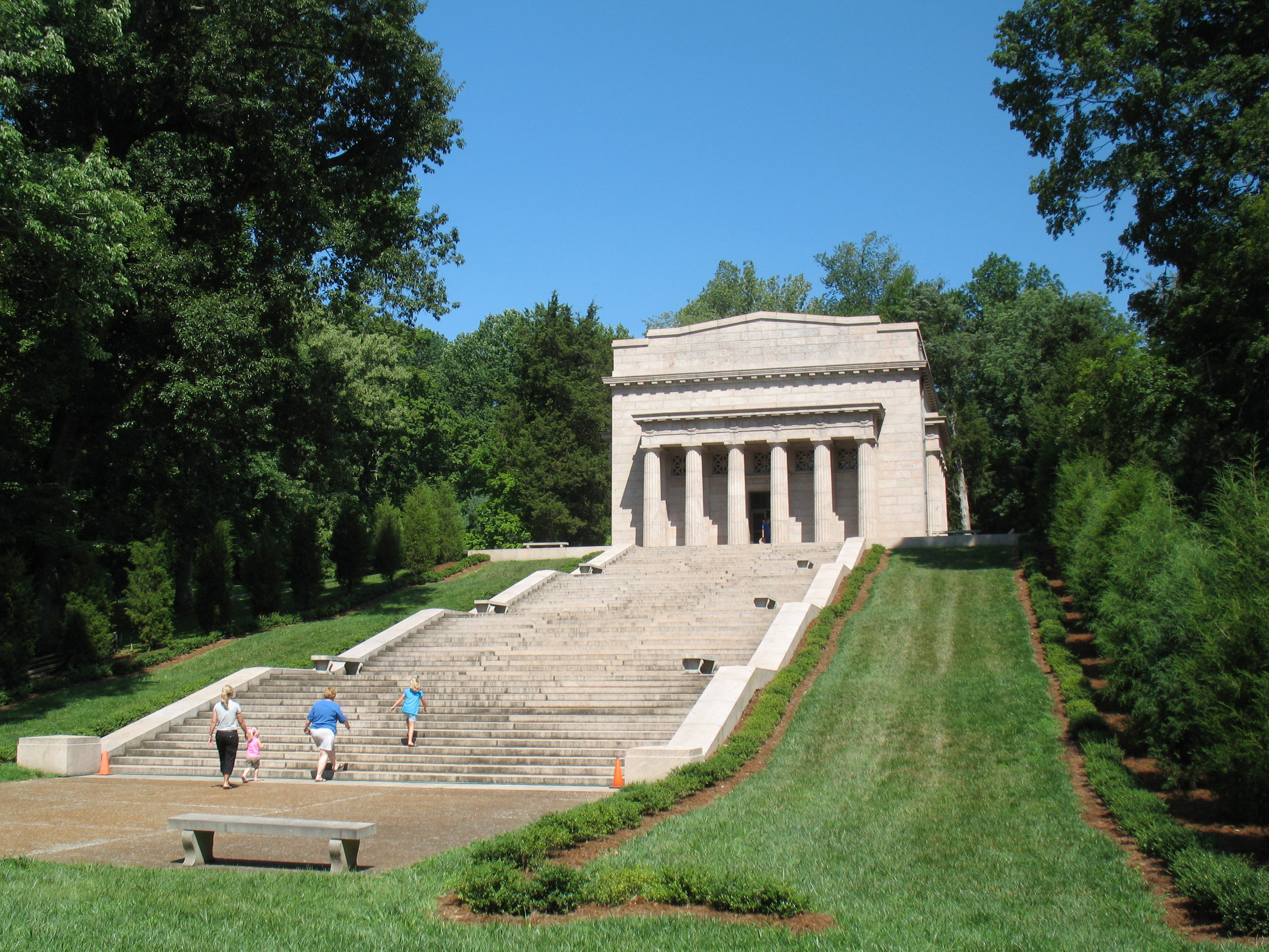 Stairway to the building containing a symbolic cabin like the one, Lincoln was born in. Hodgenville, Kentucky, USA. August 3, 2008